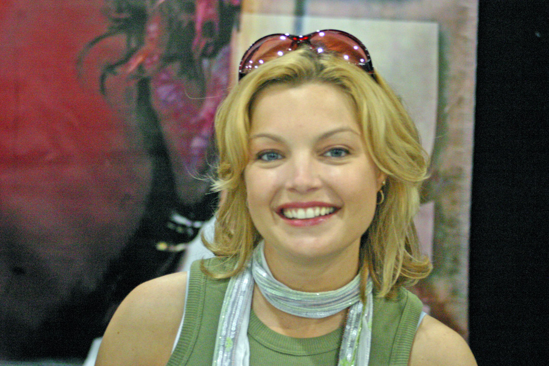 Clare KramerClare Kramer in Philly